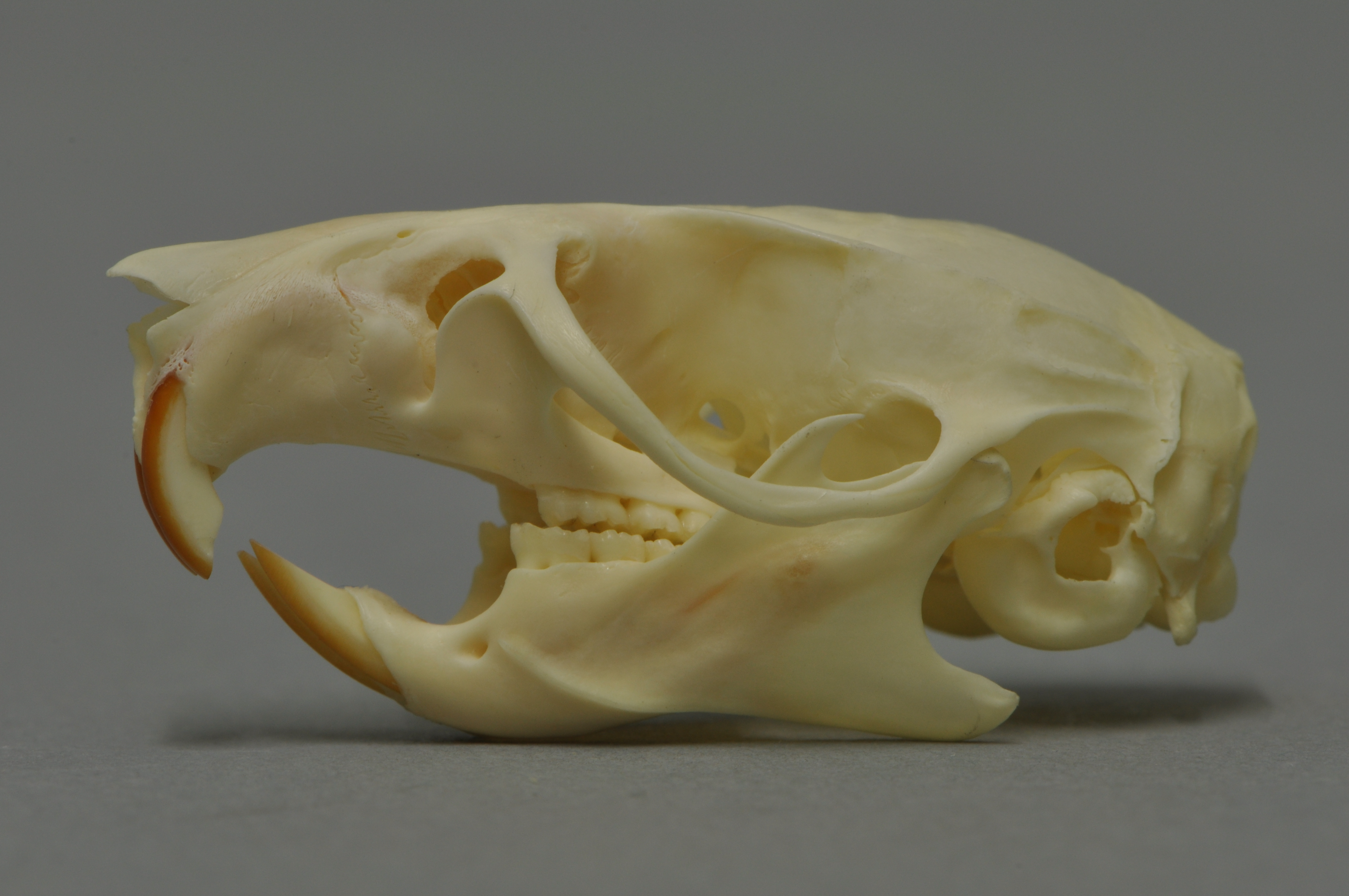 black rat Rattus rattus , skull, Coll. Museum Wiesbaden